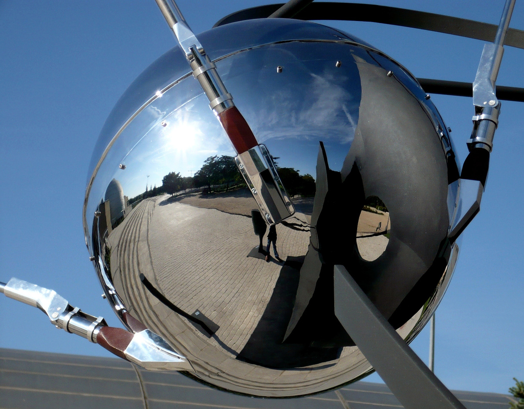 Real-size replica of the Sputnik-1 outside the Madrid Planetarium (Spain). Installed in 2007 to commemorate the 50th anniversary of its first launching (October 4, 1957).